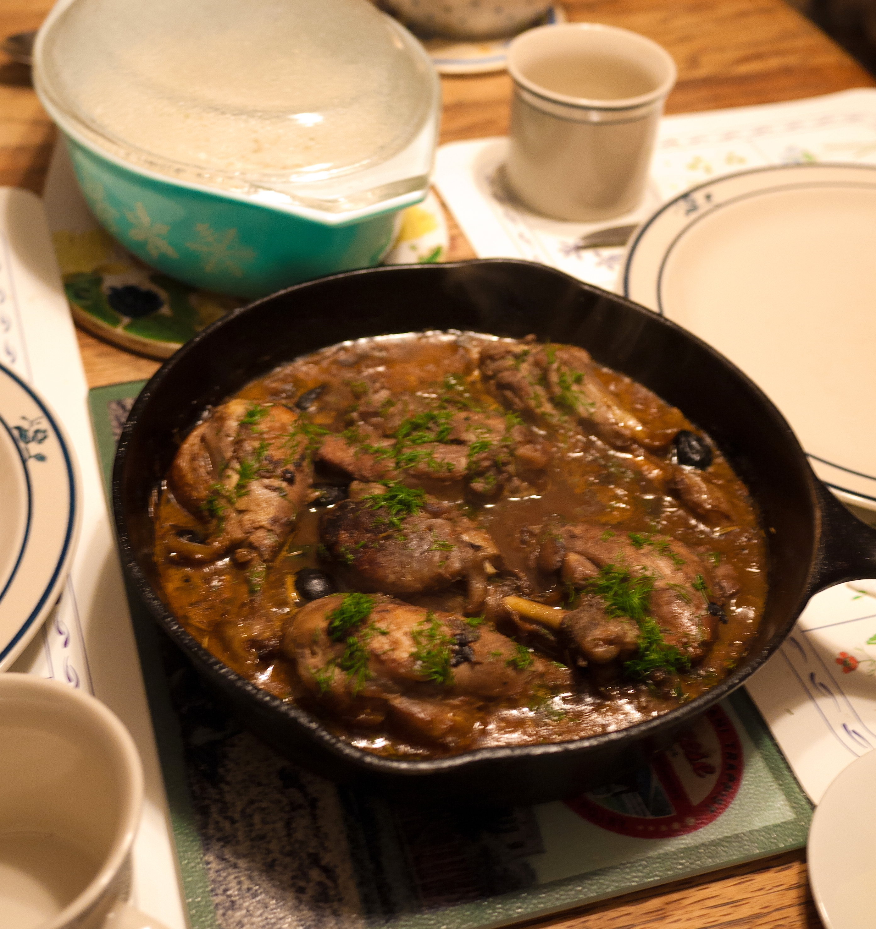 chicken marengo